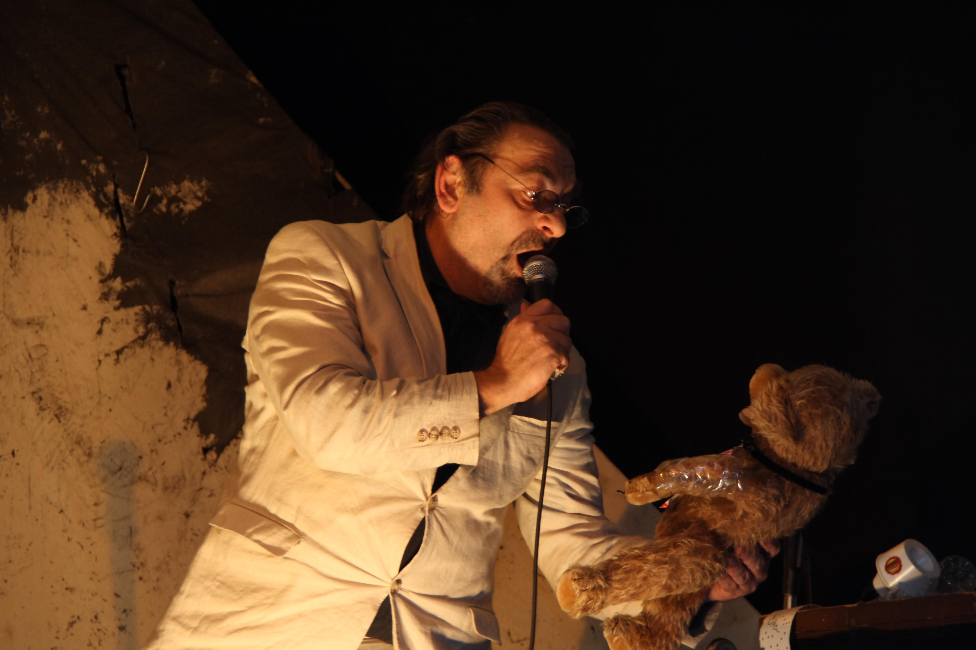 Klaus Huber at the Kult, Niederstetten.